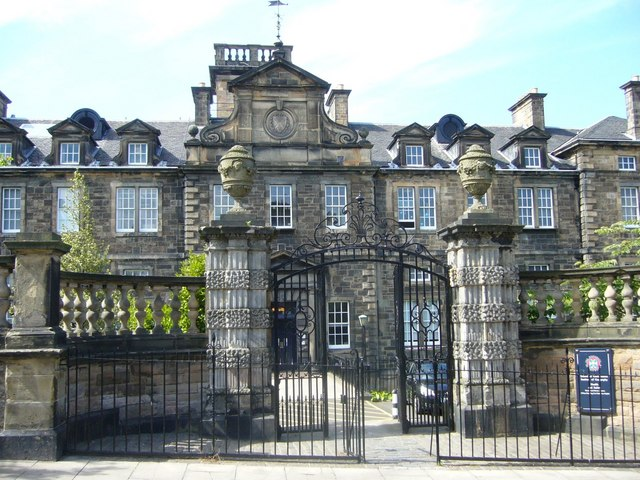 University building, Drummond Street Once part of the second Royal Infirmary, this building now houses the University's Geosciences Department.